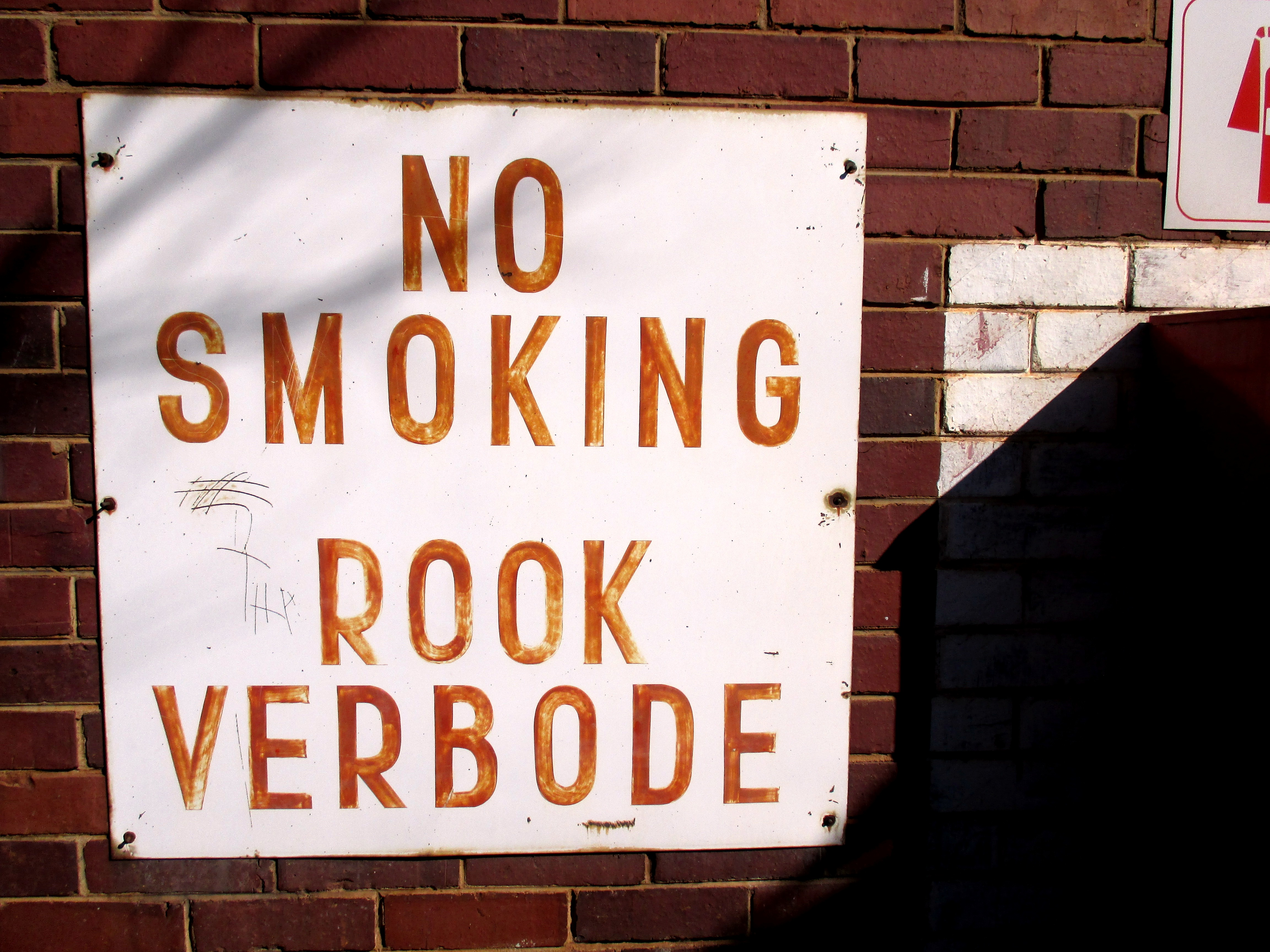 Description: Sign at AFB Swartkops.